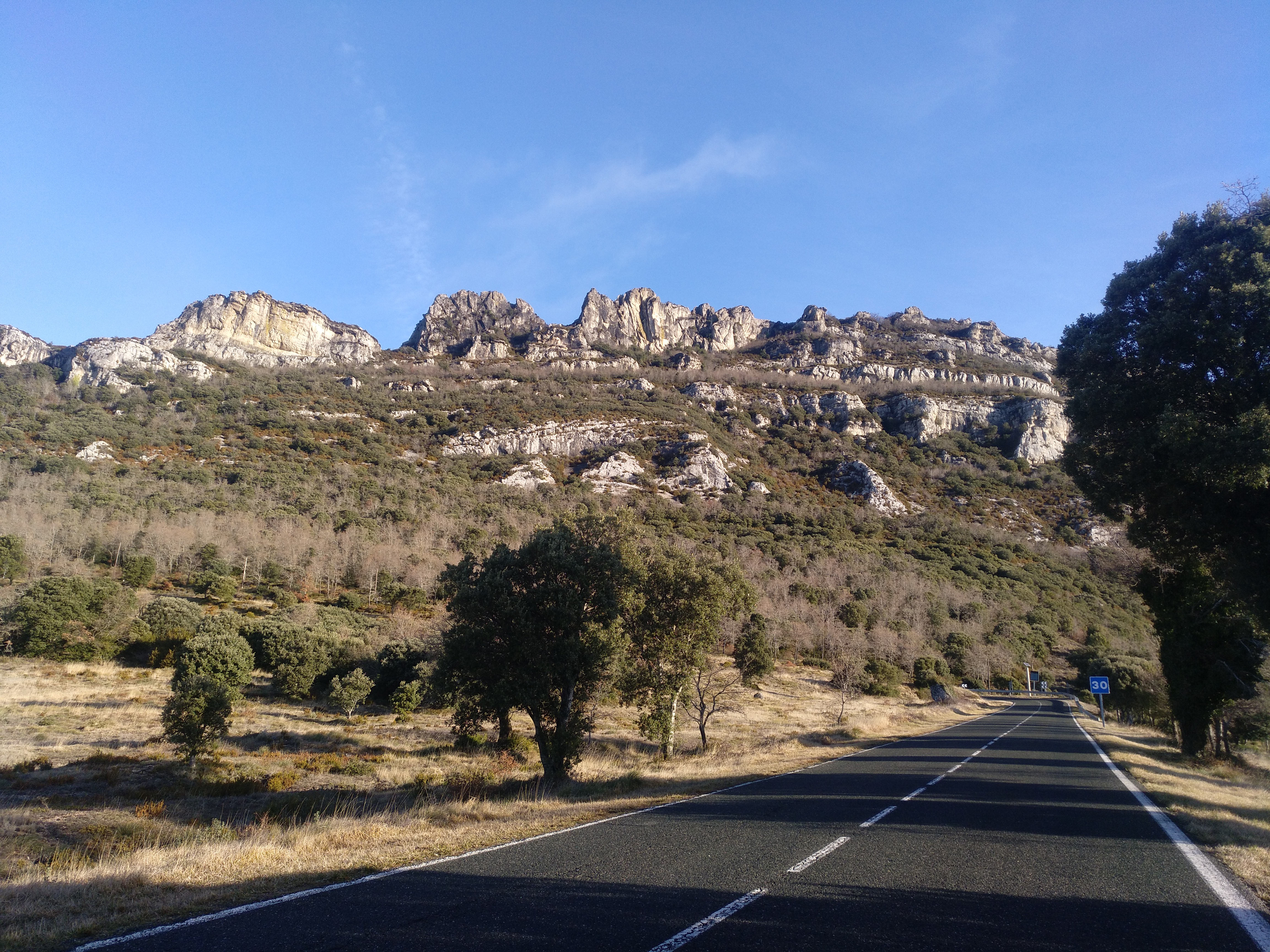 Eskamelo mountain (Araba, Basque Country)